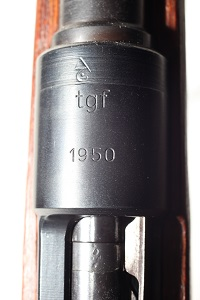 VZ.24 receiver mfd. 1950, with Iraqi property mark.